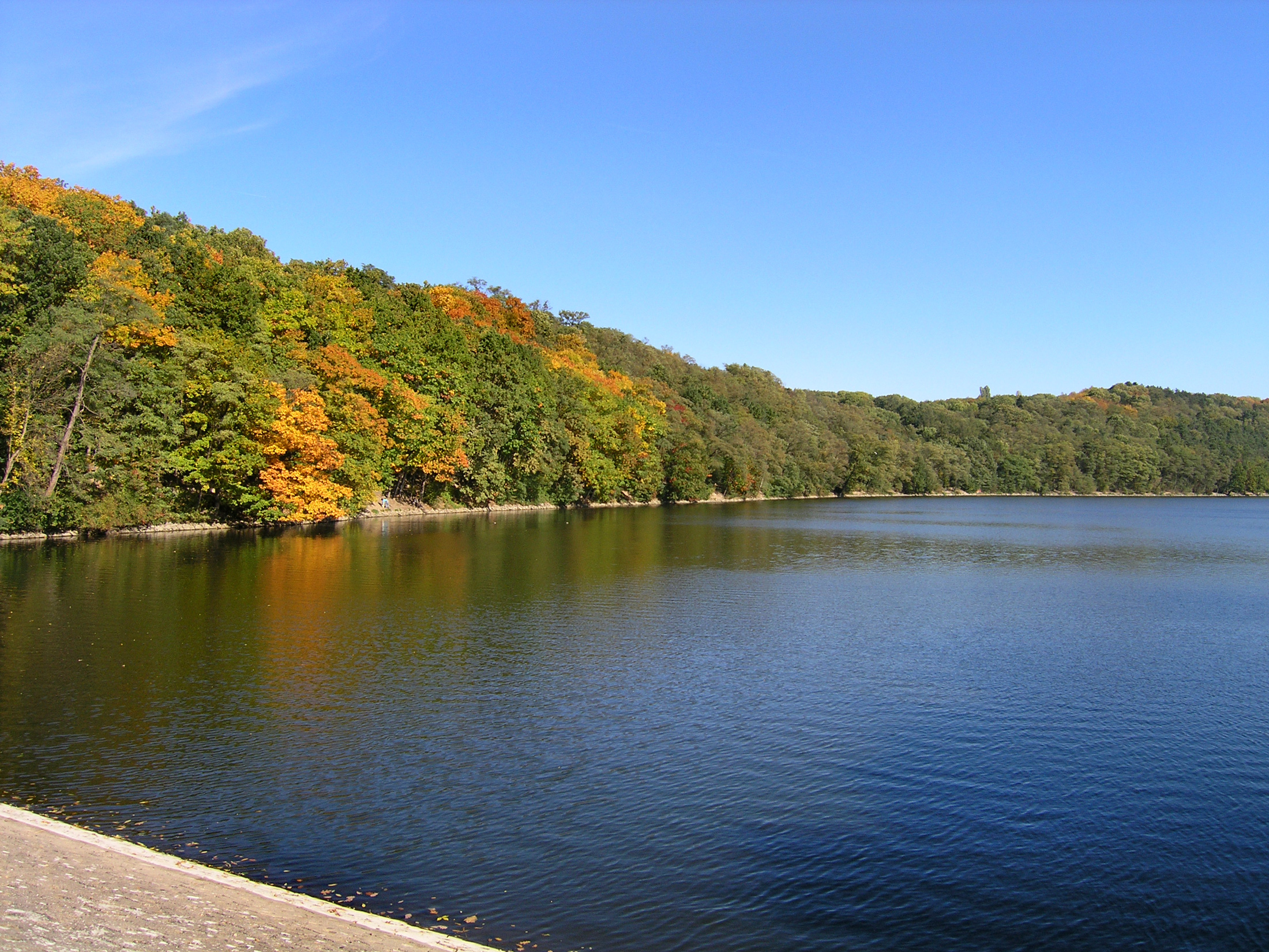 Hostivař dam in Hostivař, Prague